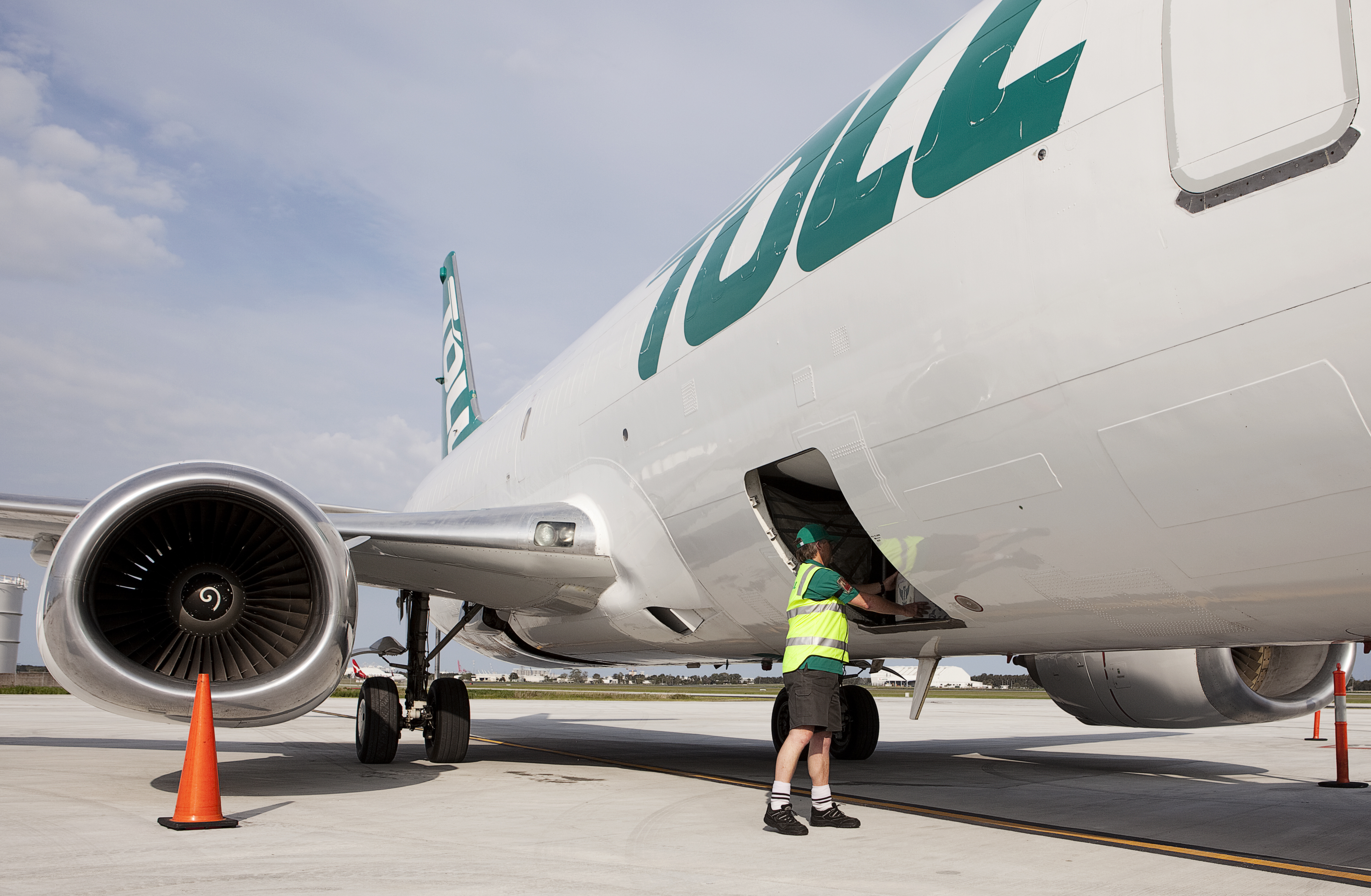 Toll 737 aircraft being loaded